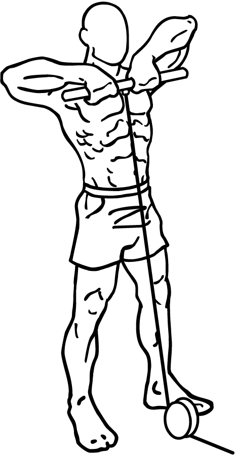 an exercise of shoulders